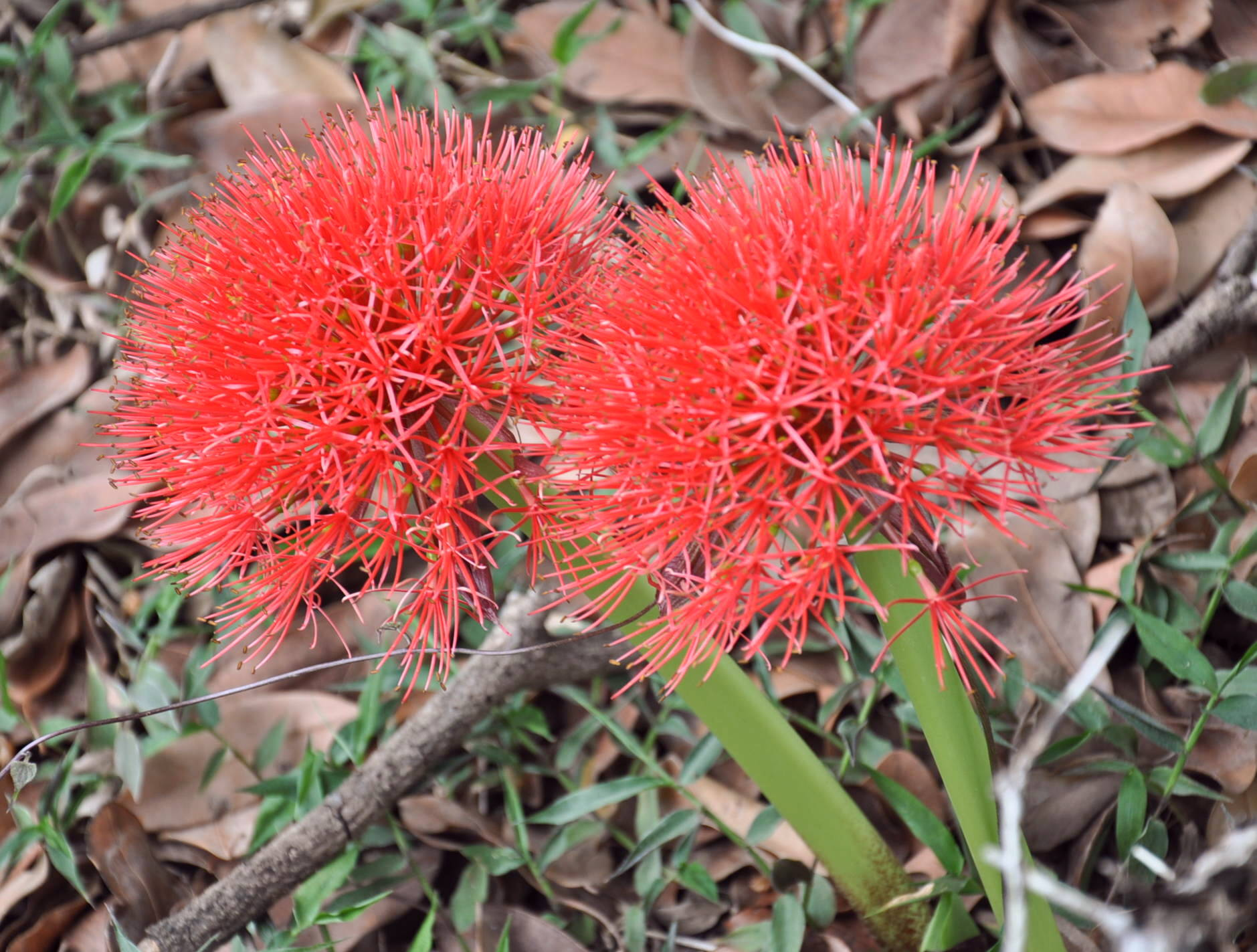 Blood lilies. Rich flora nurtured by the rain drops from Victoria falls in Zimbabwe.